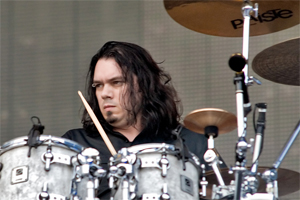 Stephen van Haestregt (Drummer of Within Temptation) @ Rock en France